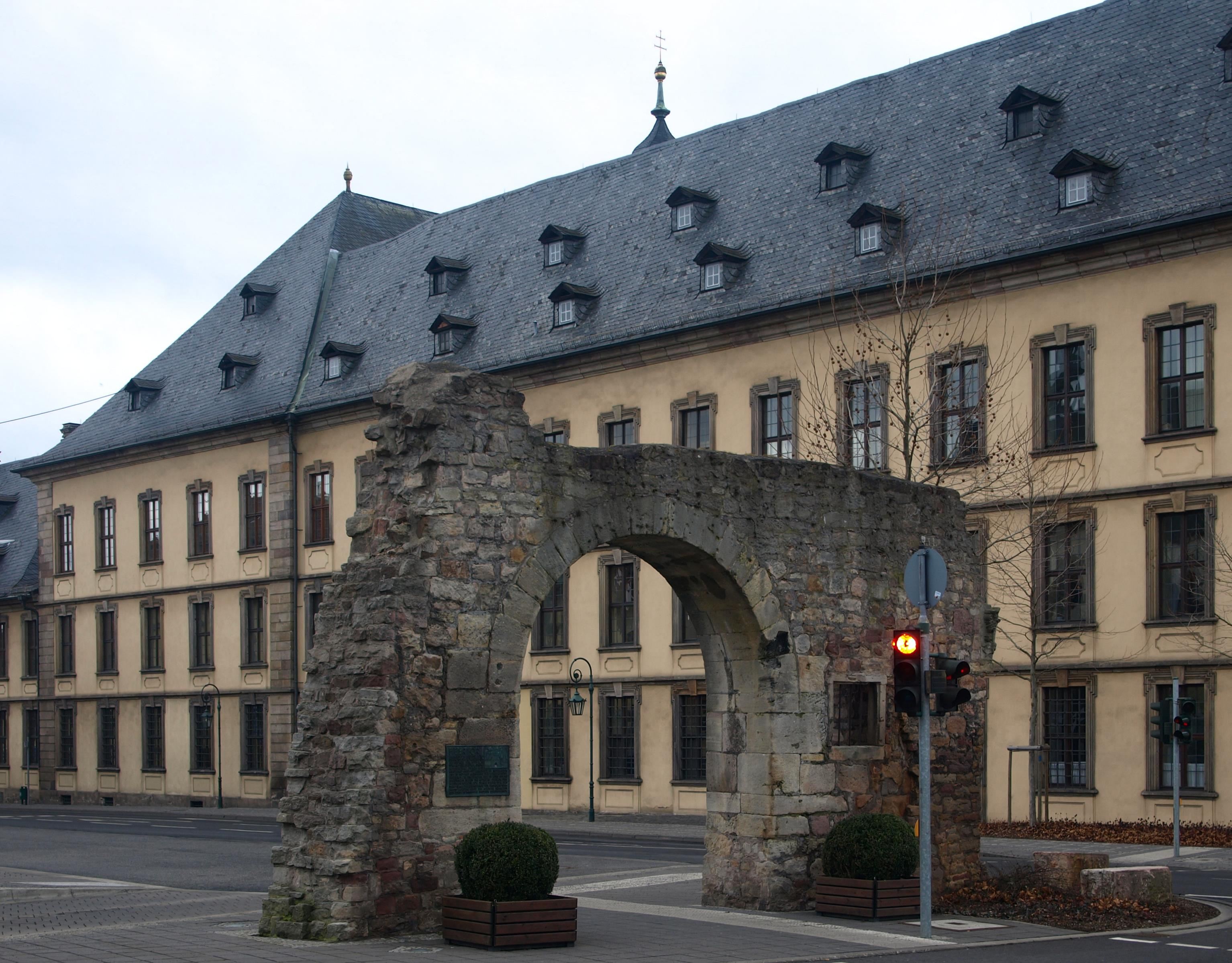 probably a romanesque town gate in Fulda, called Heertor